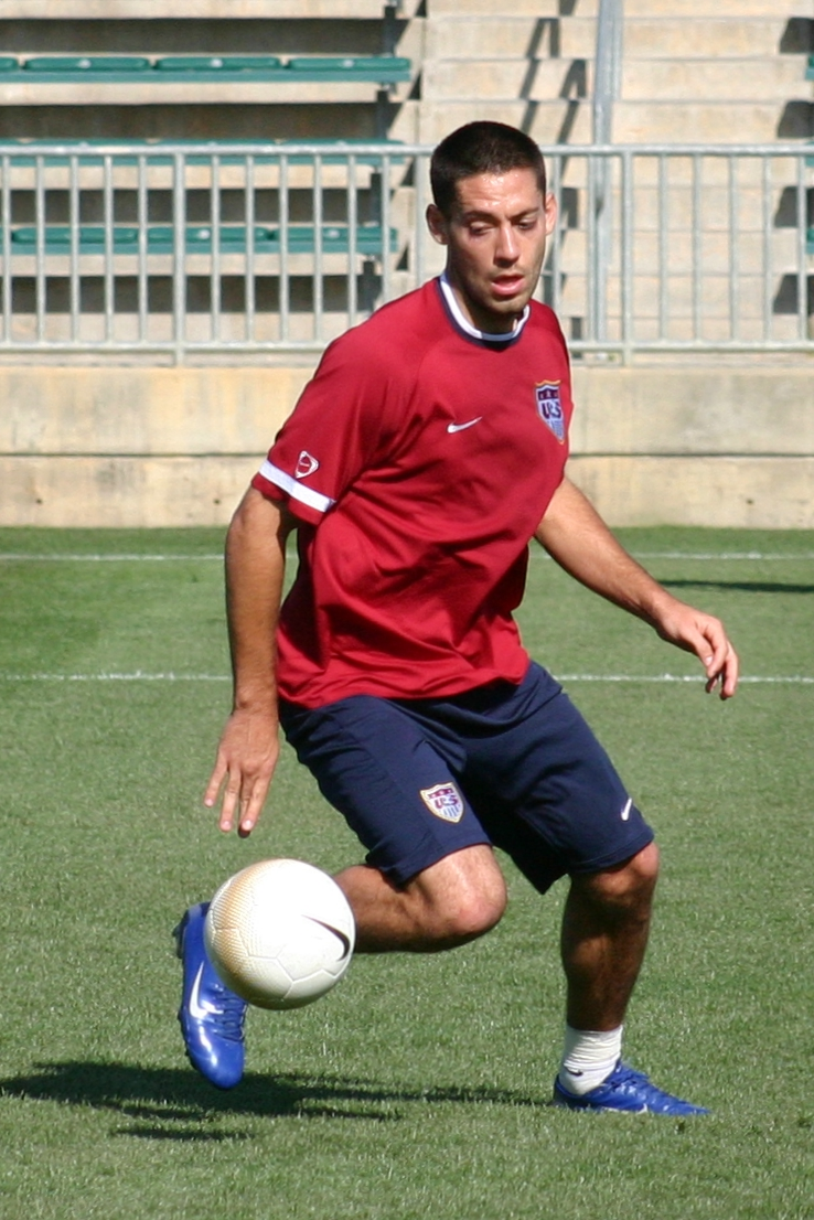 Clint Dempsey of the United States national soccer team shown in training; Original description: "The US Men's National Team practices at SAS Soccer in Cary, NC on 4/10/2006 ahead of their match against Jamaica."MG_0251